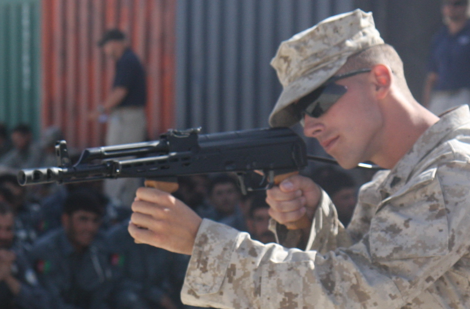 U.S. Marine Corps Cpl. Cory J. Becker, of Golf Company, 2nd Battalion, 7th Marine Regiment, shows Afghan National Police recruits different firing positions using an AMD-65 assault rifle on Lashkar Gah, Afghanistan, June 3, 2008. The Marine unit, based out of Marine Air Ground Combat Center Twentynine Palms, Calif., is a reinforced light infantry battalion deployed to Afghanistan in support of Operation Enduring Freedom.